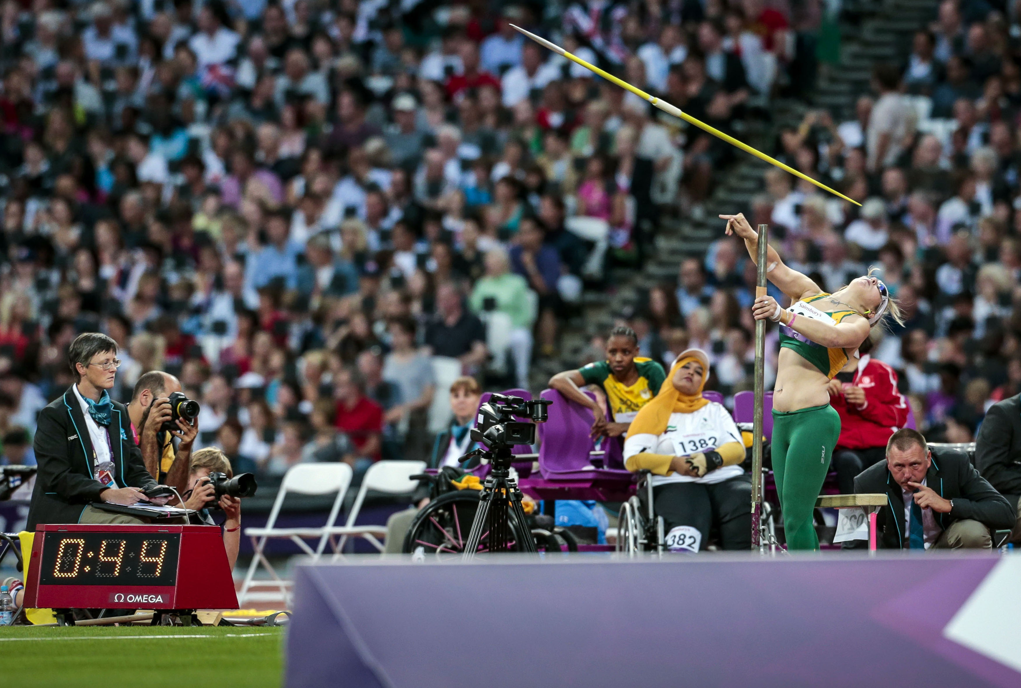 Photograph of Australian Paralympic team member Brydee Moore at the 2012 Summer Paralympic Games in London